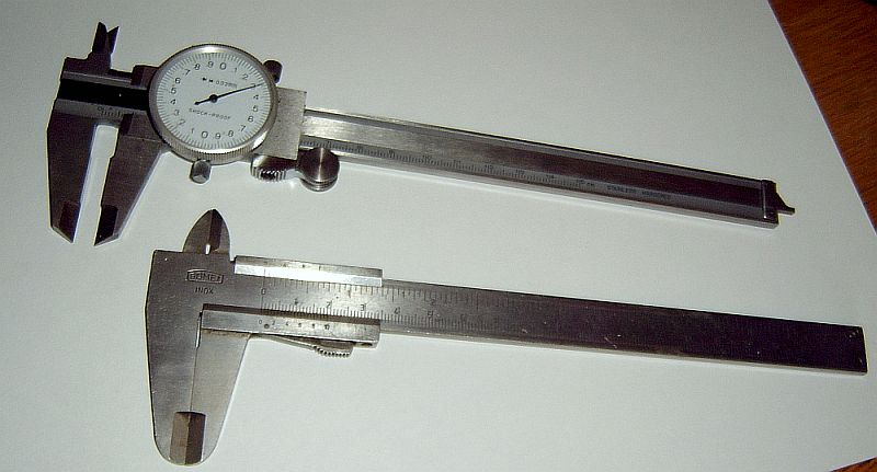 Analogic caliper and vernier caliper